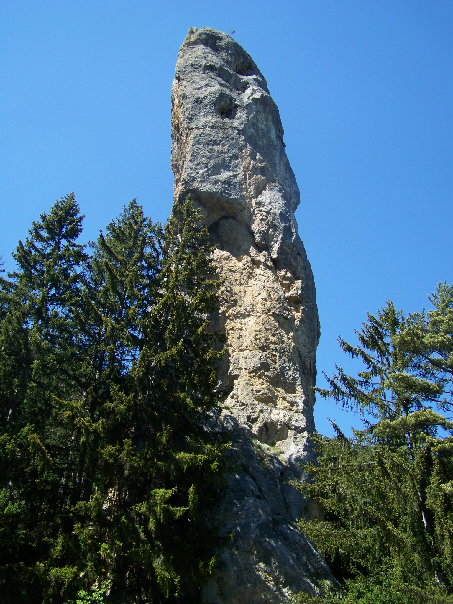 Sight on monolith de Sardières situated in the Savoyan Alps in France.